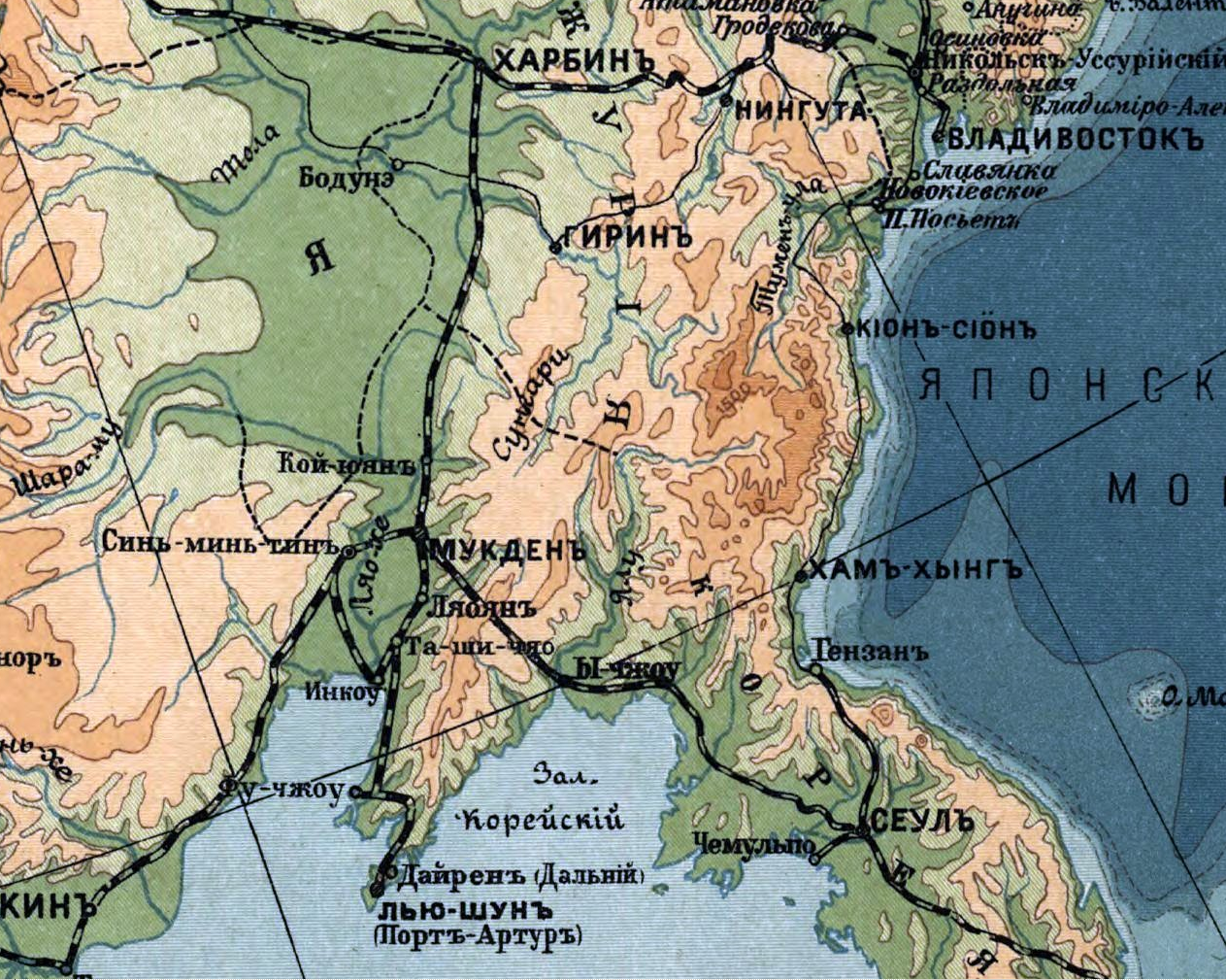 Modified file cropped version for illustrative purposes on an article - cropped version concentrated on area around Dalian and the Chinese Eastern Railway southern branch to Dalian ... Notes Харбин is Harbin (left of centre-top of map), Владивосток is Vladivostok, terminus of the transsiberian railway (top right of map), Порт-Арту is Port Arthur (left of bottom centre of map), Дайрэн / Дальний (Dairen/Dalian) is just north of Port Arthur